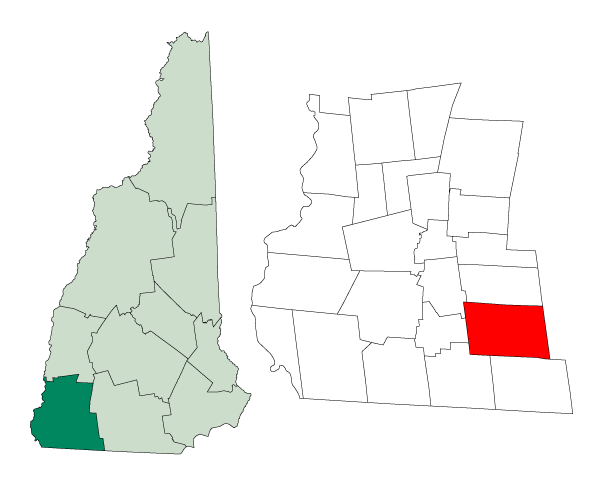 Map of a municipality in Cheshire County, New Hampshire